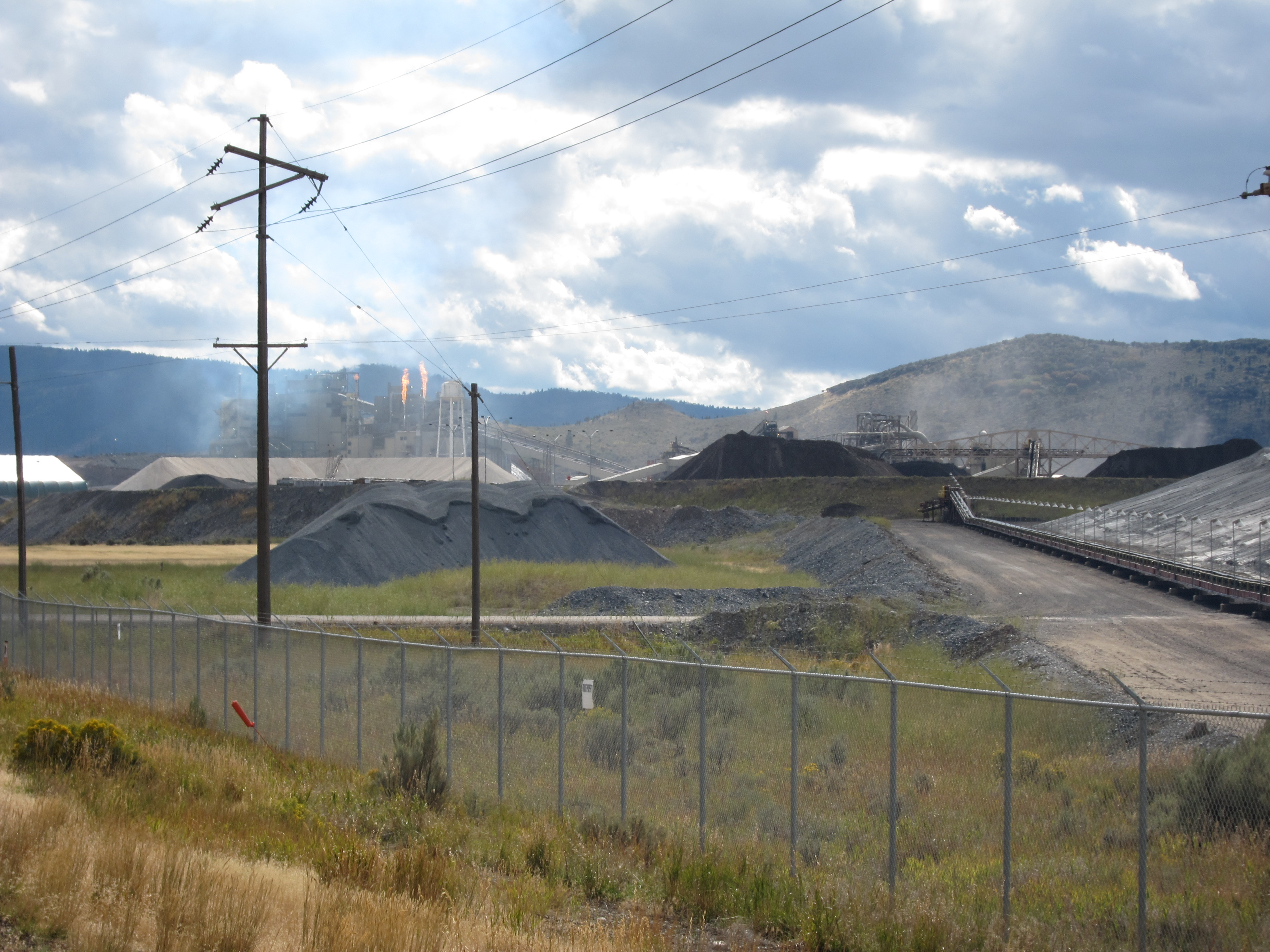 Monsanto phosphorus plant, Soda Springs, Caribou County, southeast Idaho, USA. – This phosphate ore-processing plant was originally constructed by the Morrison-Knudsen Company in 1950, and production started in 1952. As of 2011, P4 Production LLC (Monsanto’s wholly owned subsidiary) owns the phosphate mining and processing facilities. The phosphate ore processed at Soda Springs comes from nearby (10–20 miles away) phosphate deposits laid down in Permian-era oceans ca. 250 million years ago. In the plant’s furnaces elemental phosphorus is refined from phosphate ore. Phosphorus is used as an important ingredient of Roundup brand herbicides and for some other products; cf. [1].